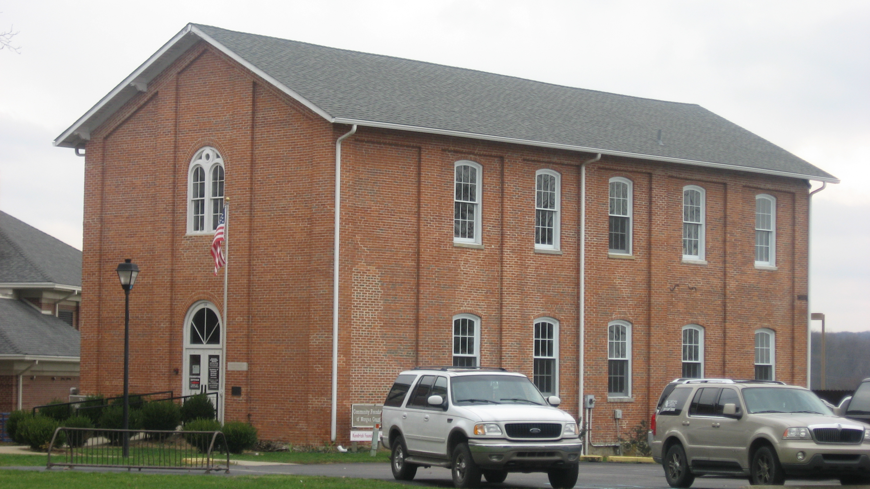 Front and northern side of the Mooresville Friends Academy Building, located at 244 N. Monroe Street (State Road 267) in Mooresville, Indiana, United States. Built in 1860, it is listed on the National Register of Historic Places.